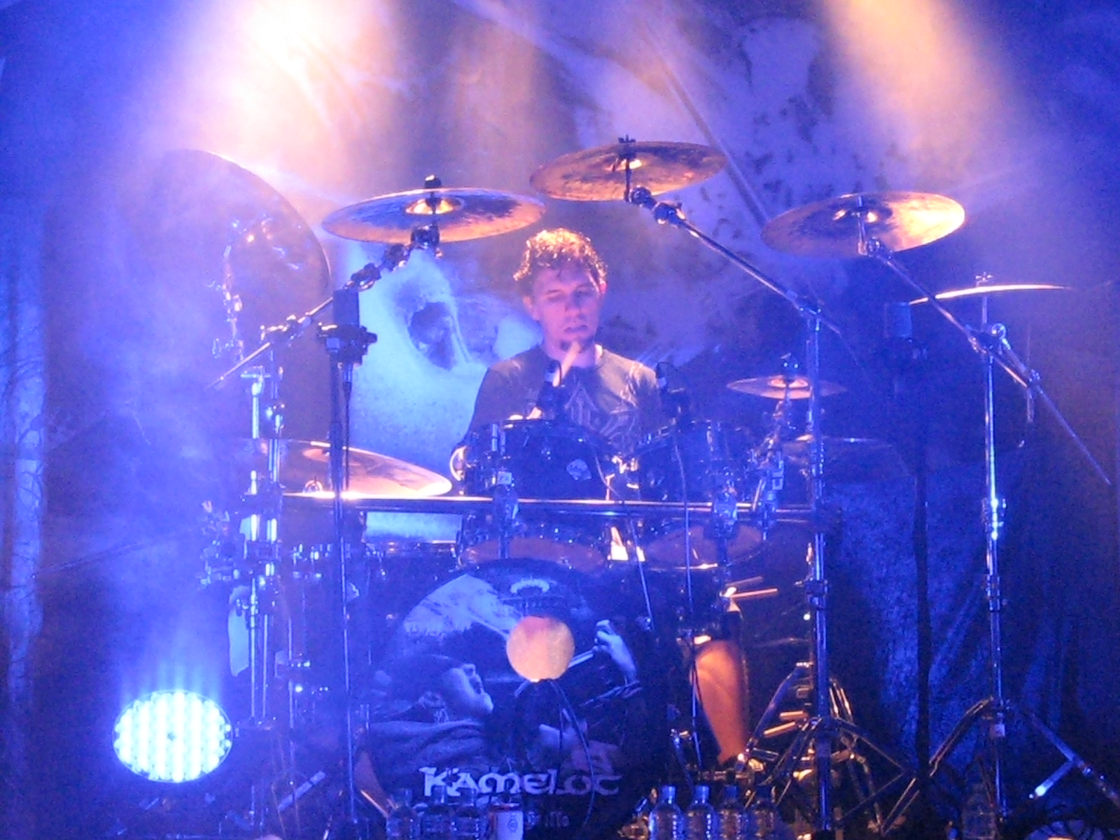 Casey Grillo, Kamelot drummer at the Astoria2, London